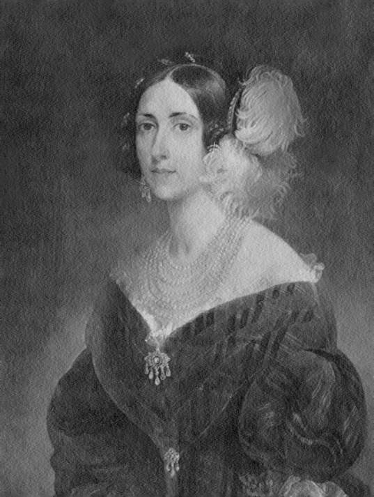 Portrait of Maria Elisabeth of Savoy-Carignano (1800–1856)